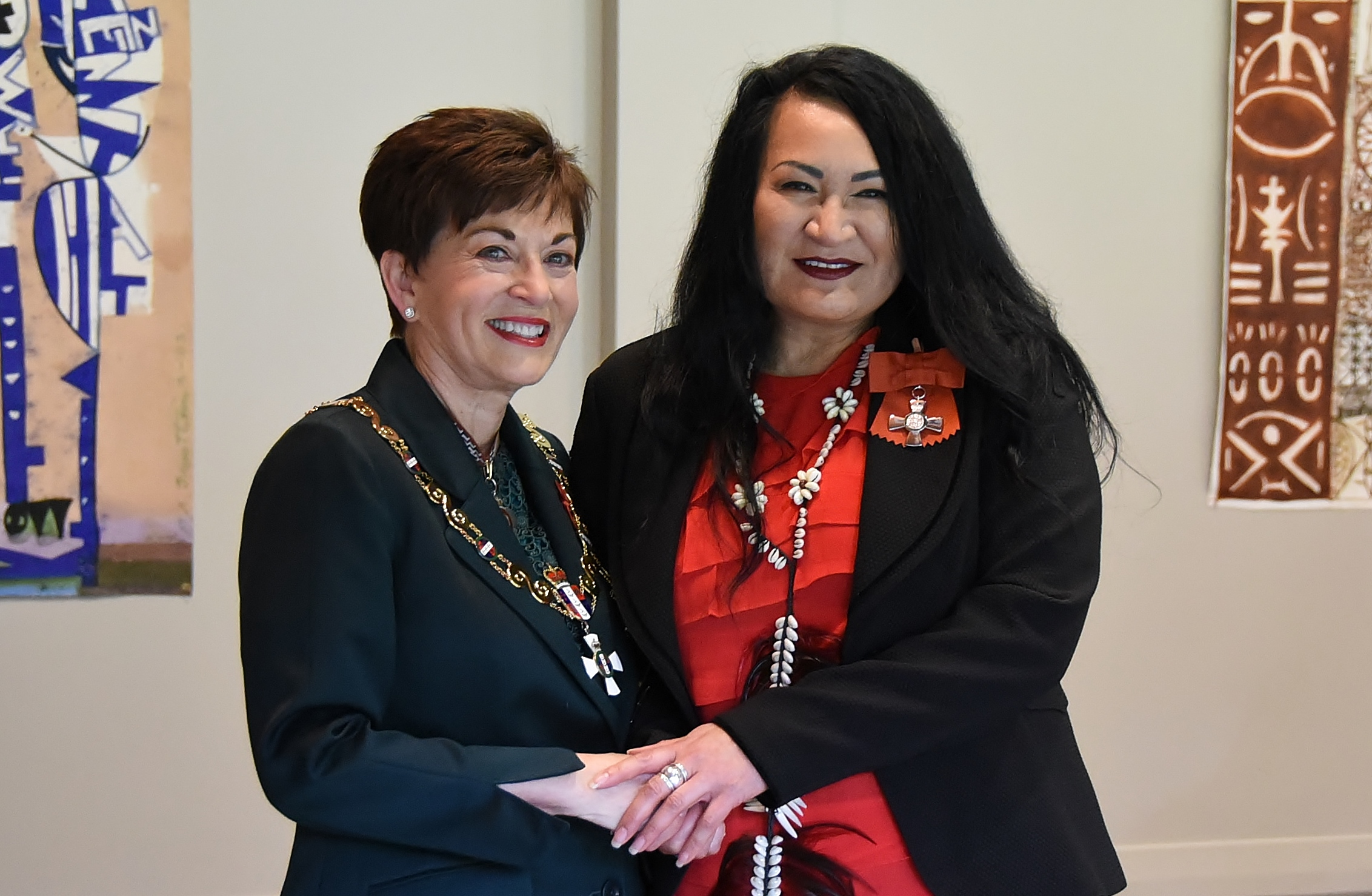 Annie Crummer (right), of Auckland, after her investiture as MNZM, for services to music, by the governor-general, Dame Patsy Reddy, on 18 August 2017